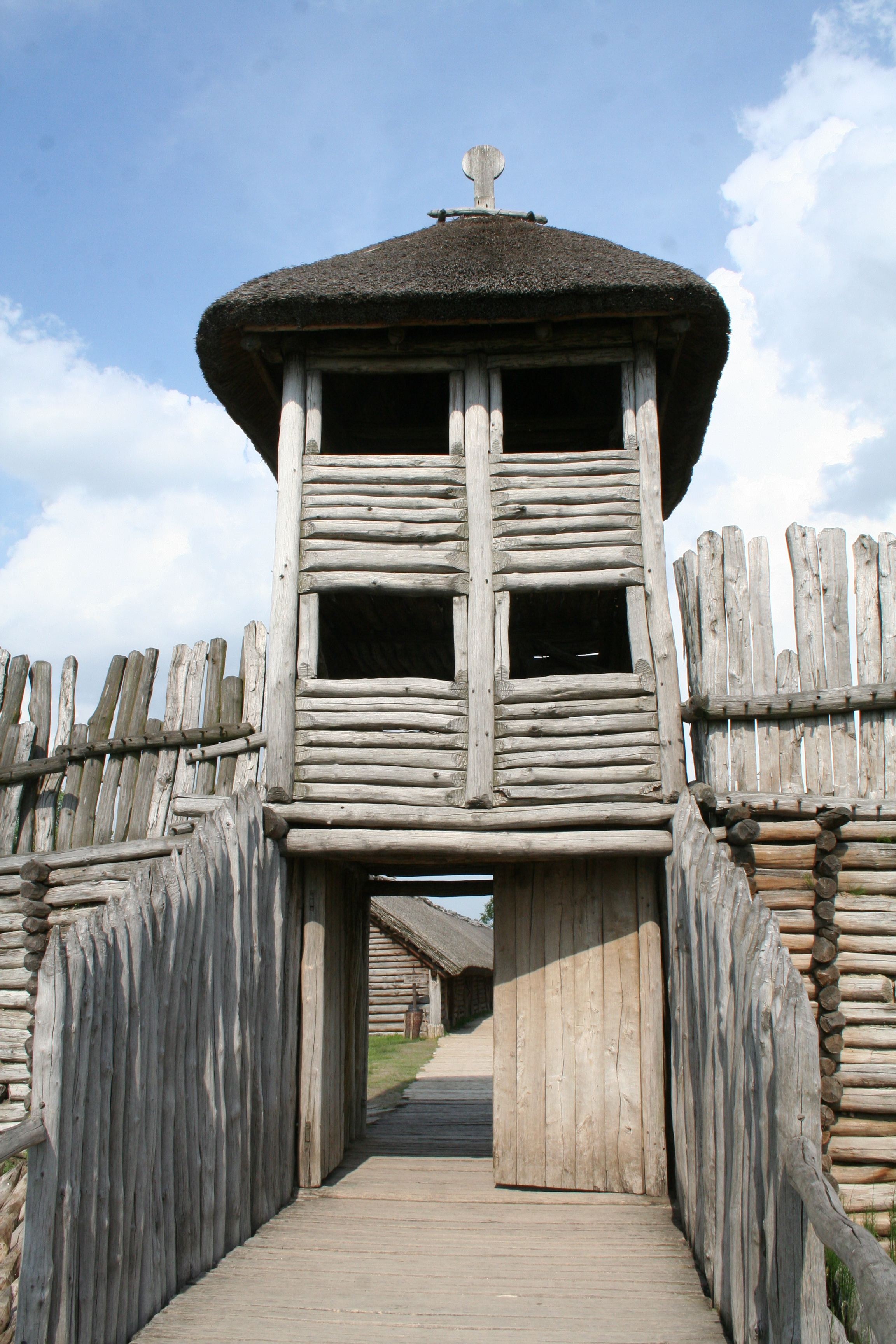 Archaeological open air museum Biskupin